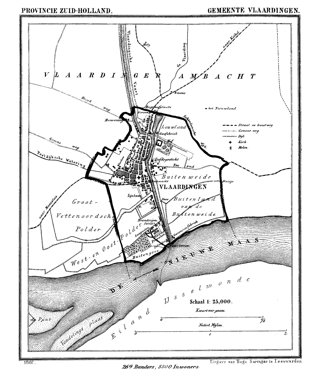 Historic map of Vlaardingen, South Holland, the Netherlands